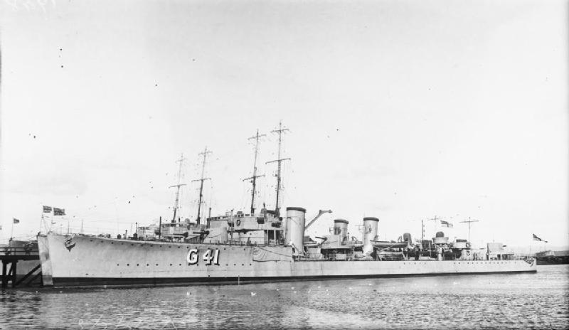 Photograph of British S class destroyer HMS Scimitar.